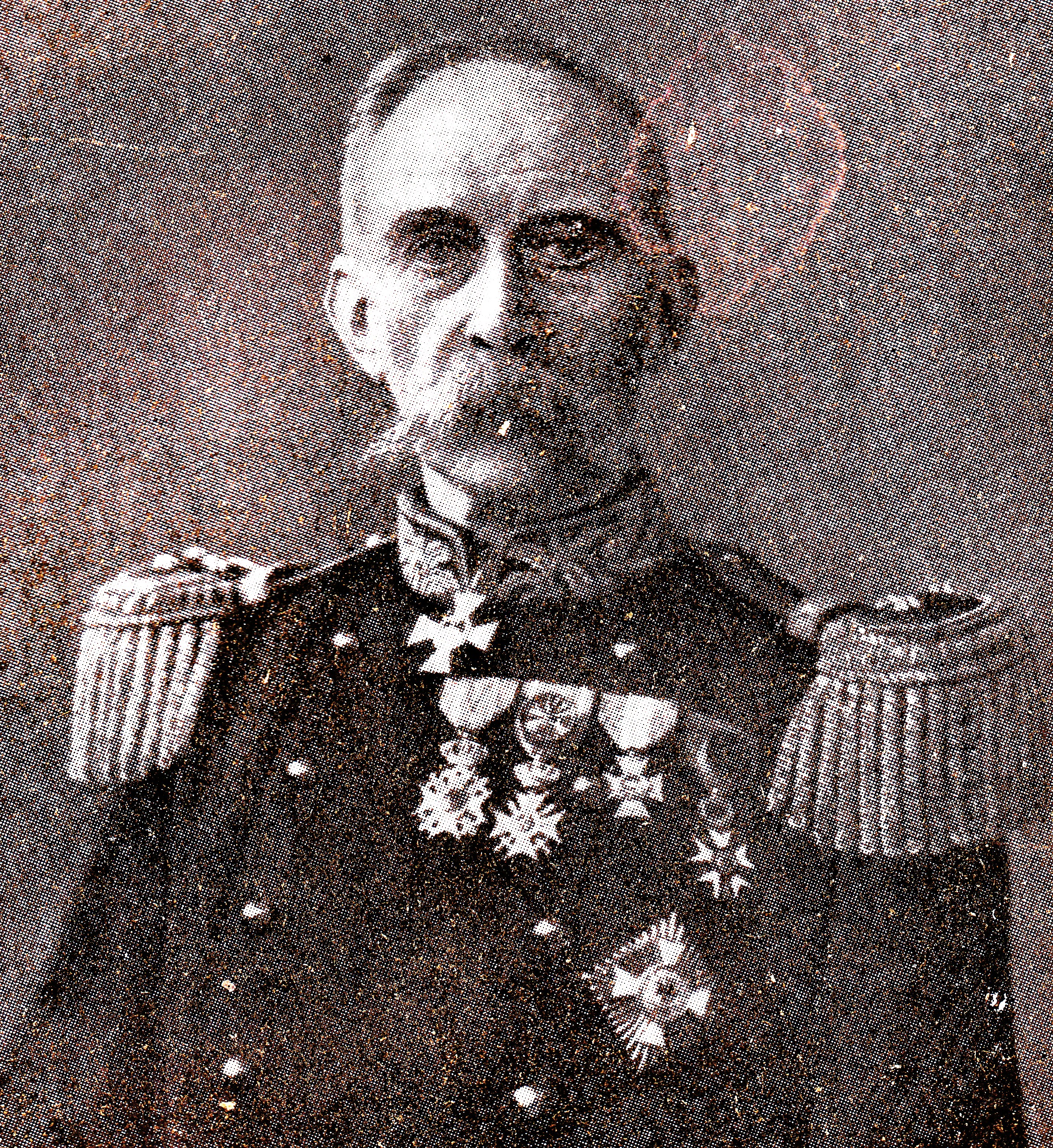 Generaal W.E.A. Wüpperman